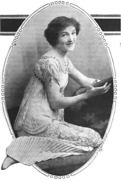 Actress Bessie Learn, c. 1915